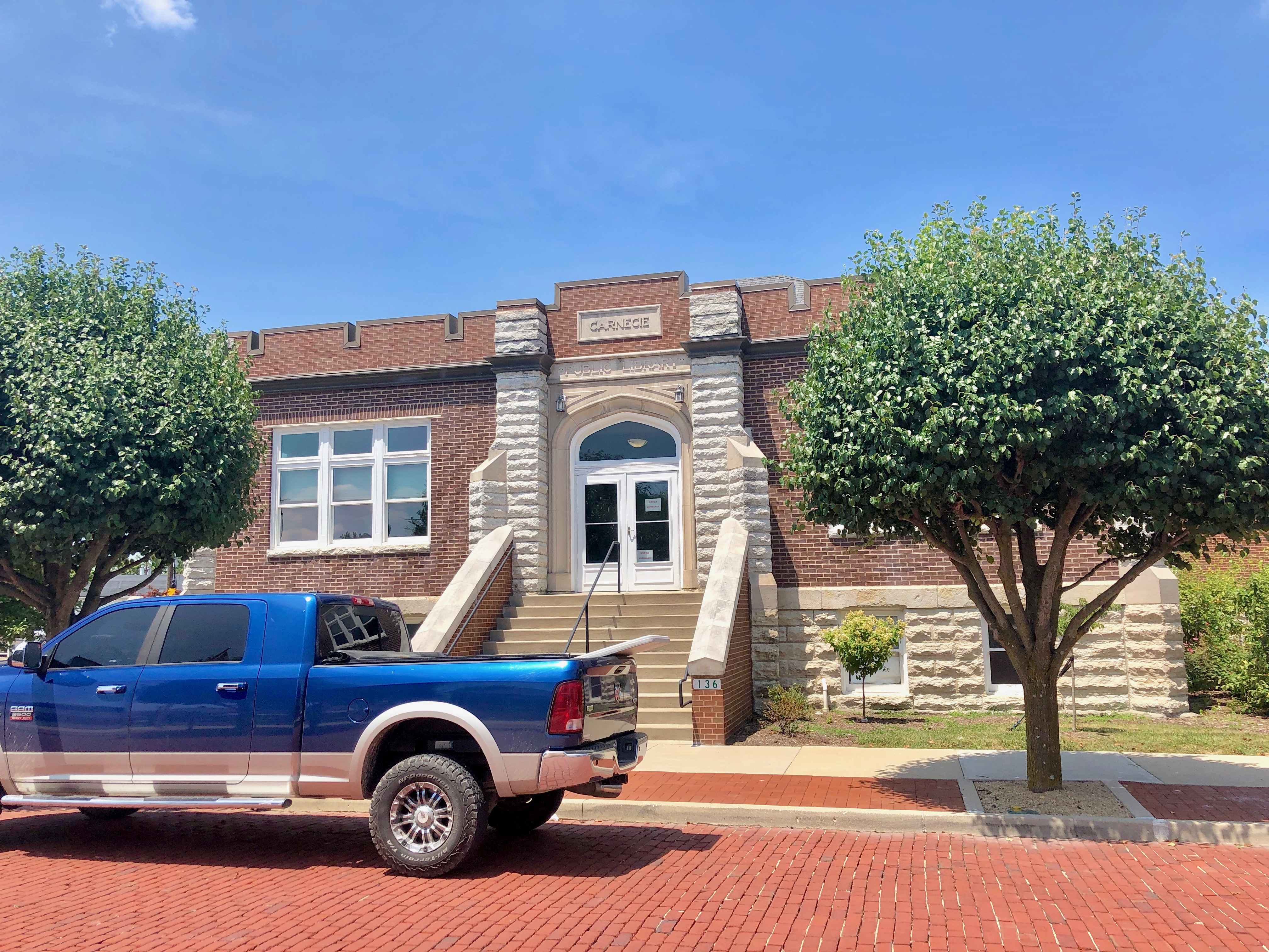 Osgood Carnegie Public Library, Osgood, Indiana